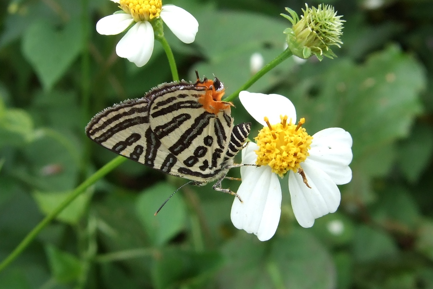 Spindasis syama. Taken in Taiwan